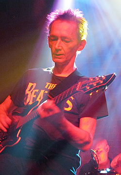 Keith Levene performing Metal Box in Dub with Jah Wobble at village underground, London. Photo by Michael Johnson of Nemesis To Go. Sources